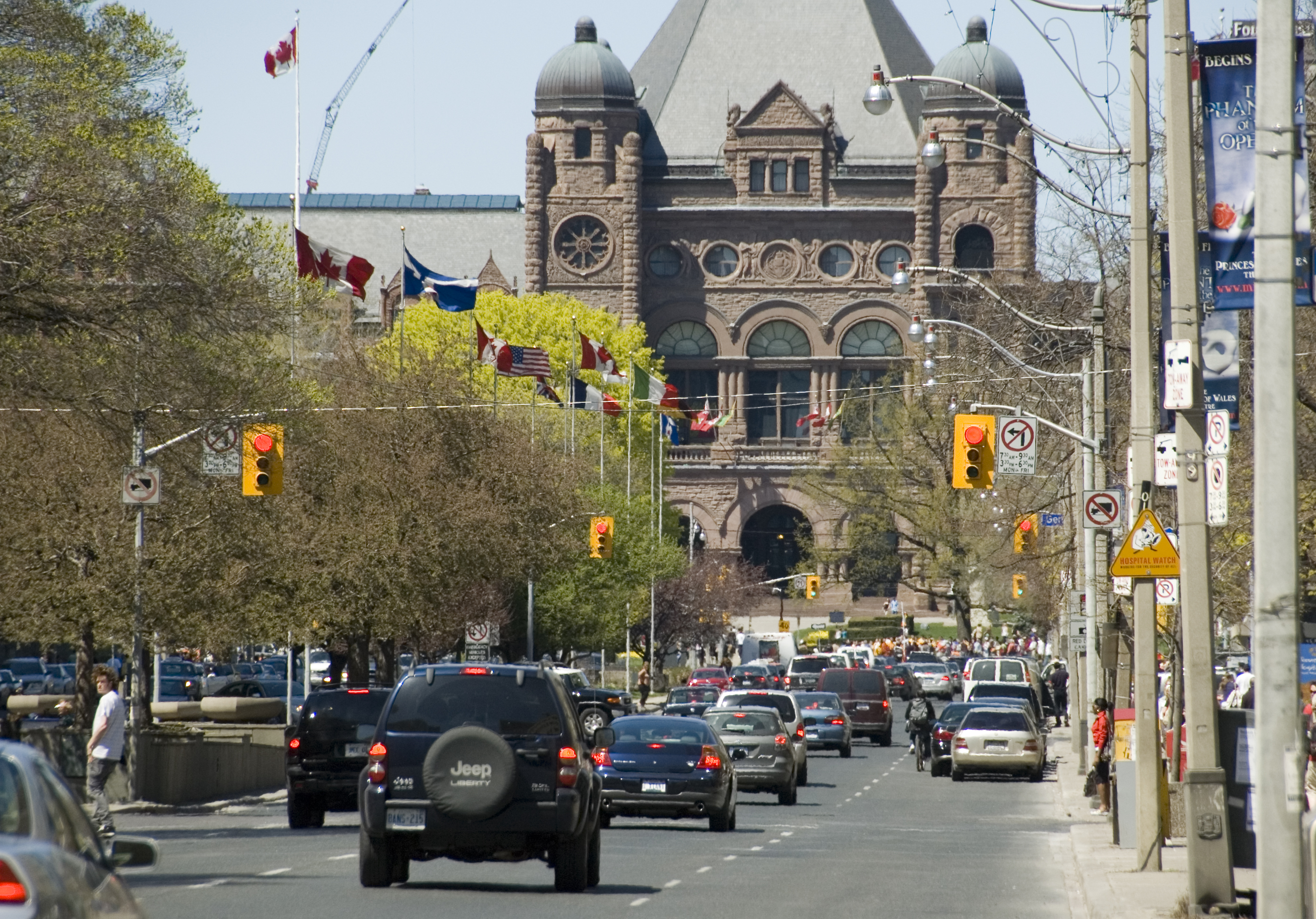 Looking north to the Ontario Legislative Assembly, Queen's Park, University Avenue, Toronto, Canada